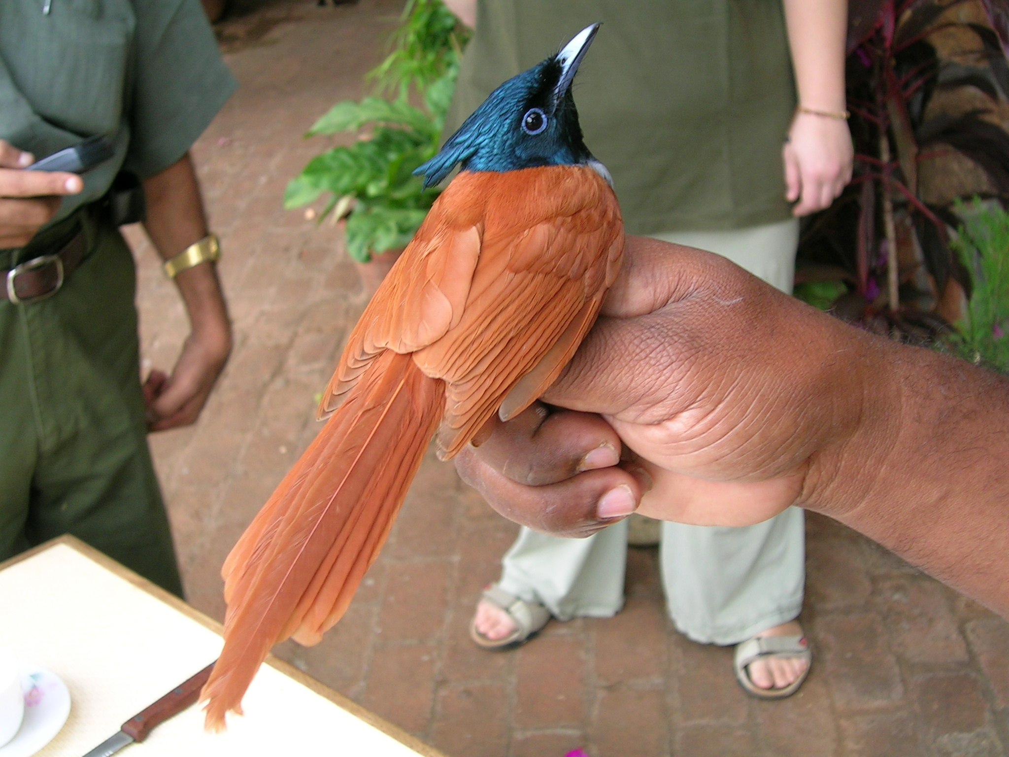 Paradise Flycatcher (Terpsiphone paradisi). Sub-adult male photographed by L. Shyamal at the foothills of Palni Hills, Tamil Nadu, India